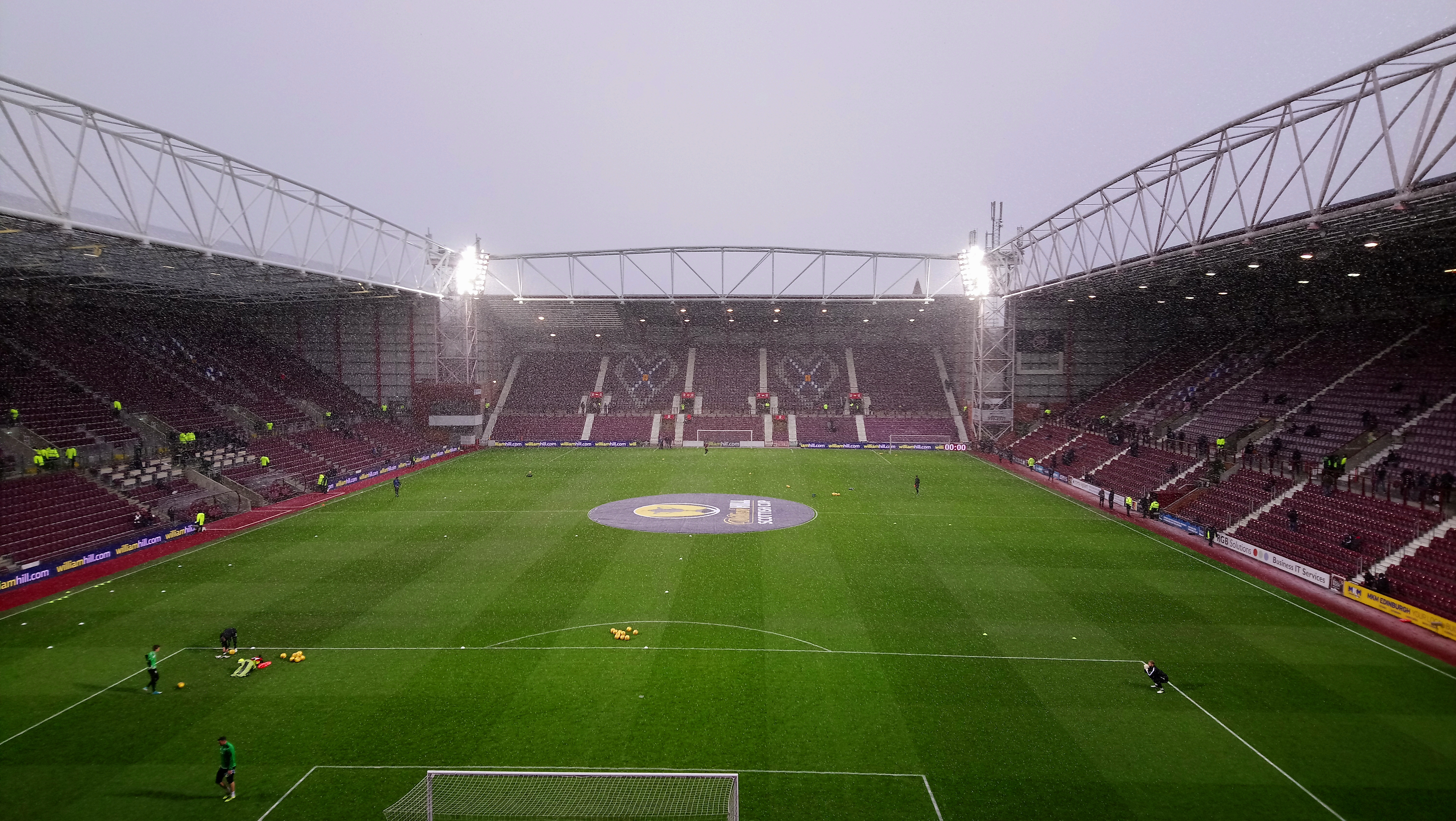 Tynecastle Park in January 2018, shortly before the Scottish Cup tie with Hibernian.